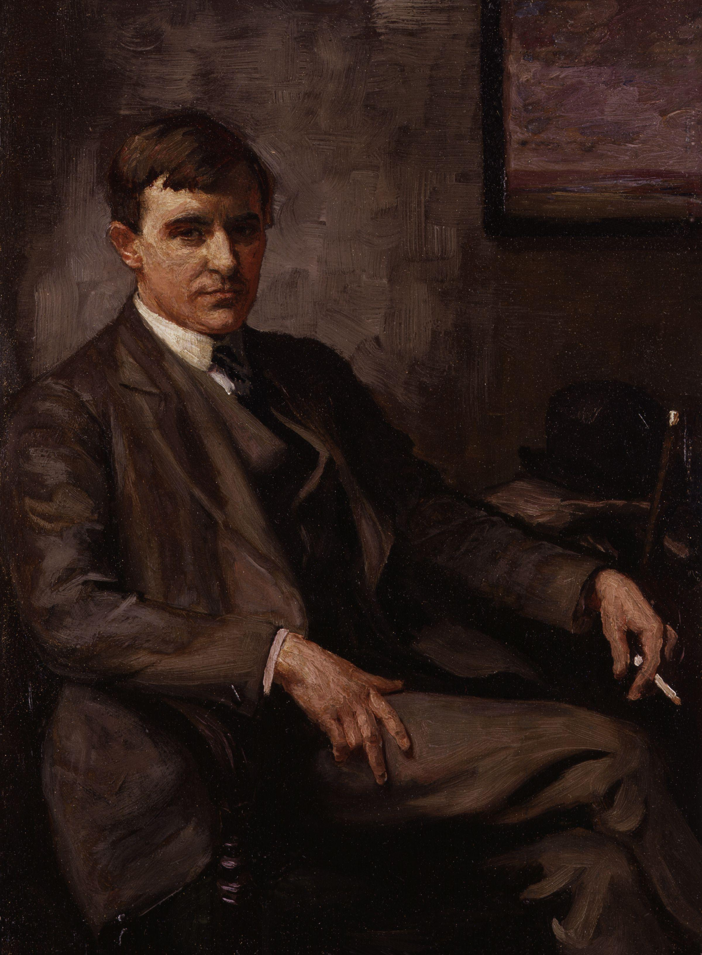 Herbert Samuel ('Bert') Thomas, by unknown artist, given to the National Portrait Gallery, London in 1966. All images in this batch have an unknown author, but there is strong evidence it was first published before 1923 (based mainly on the NPG's estimated date of the work).